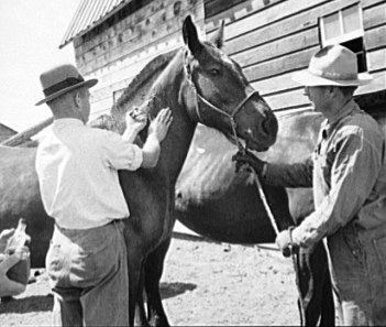 Vaccinating horse for brain fever. Fremont County, Idaho MEDIUM: 1 negative : nitrate ; size E (2.25 × 2.25 inches)